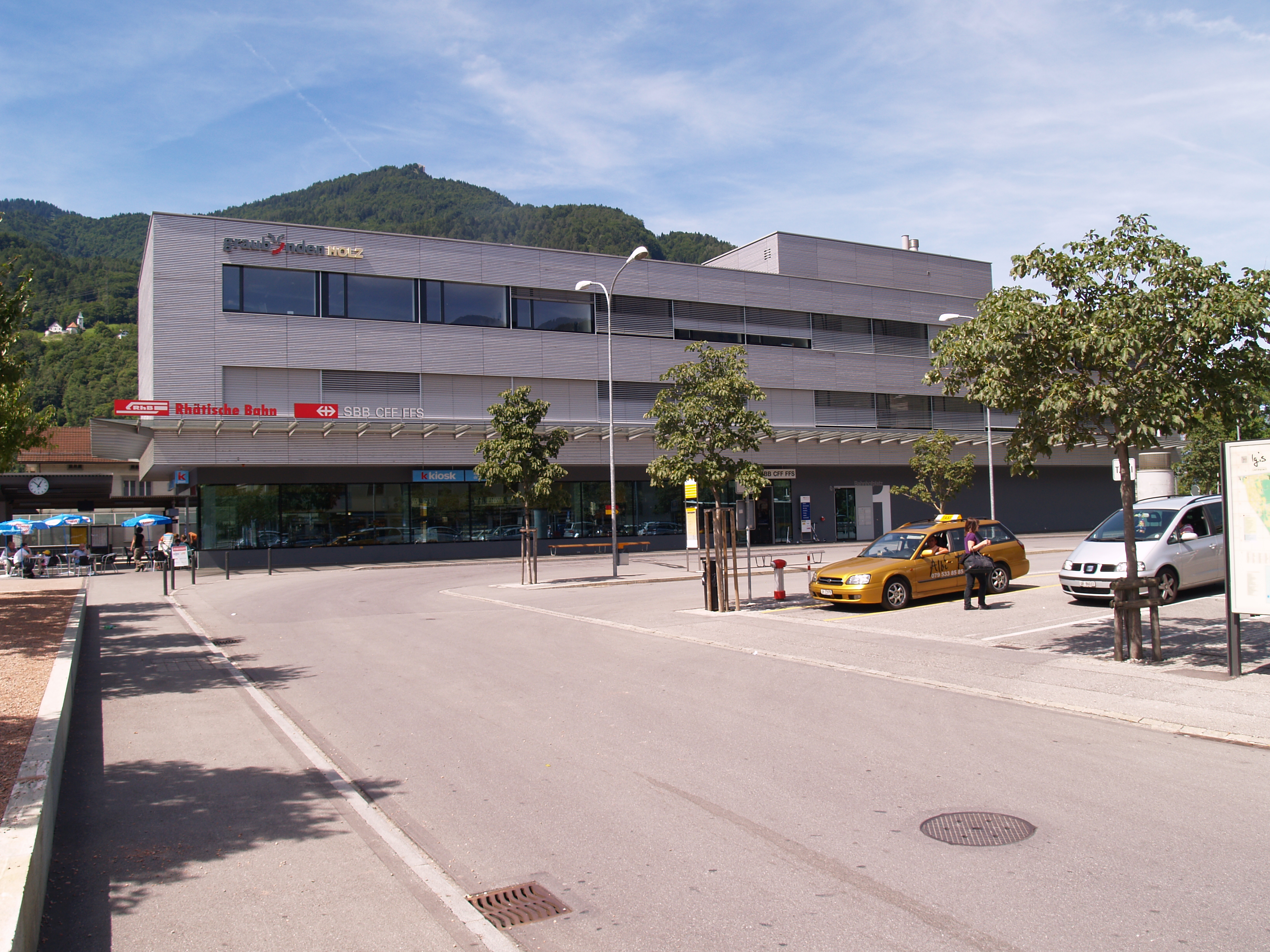 New Railstation Bulding Landquart